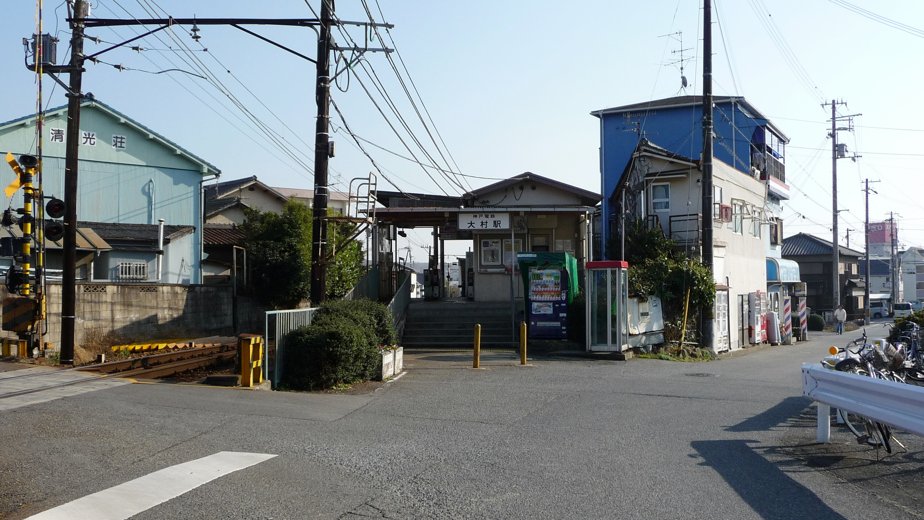 Kobe Electric Railway Omura Station